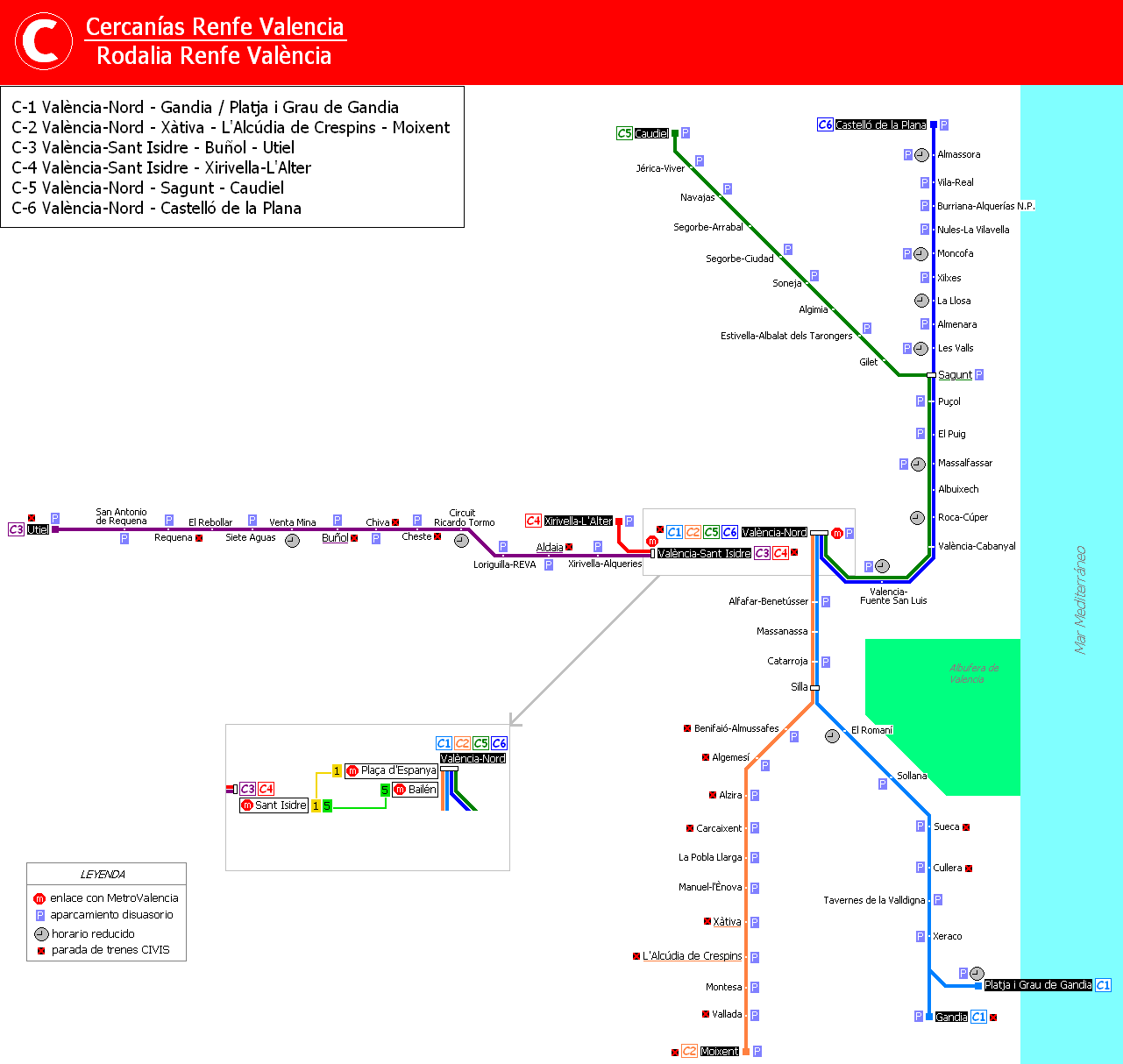 Valencia Local Railway Network Map